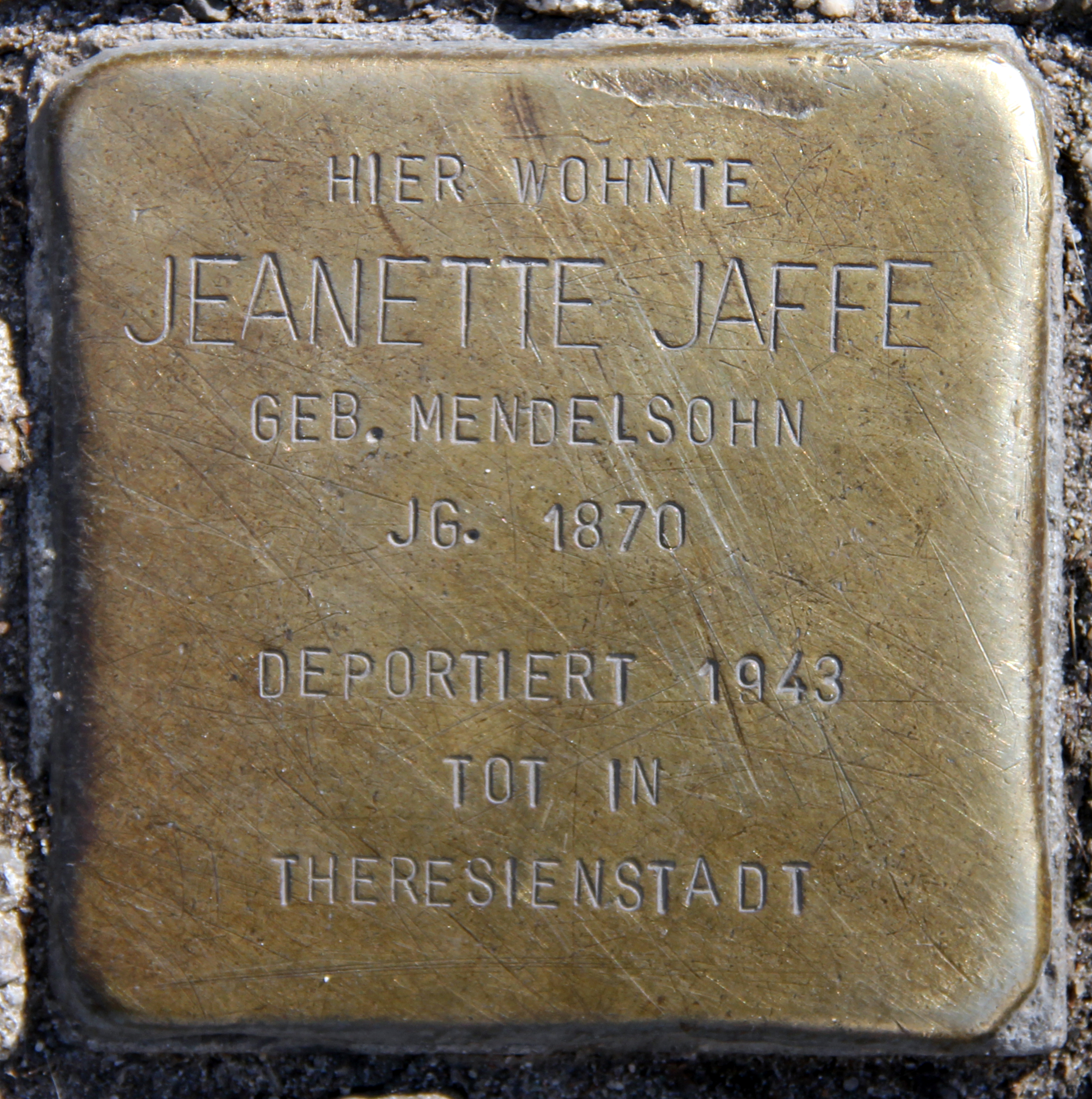 "Stolperstein" (stumbling block), Jeanette Jaffé, Zossener Straße 28, Berlin-Kreuzberg, Germany